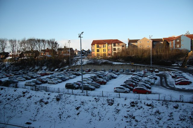 Staff car park. Car park behind Church Lane for Scunthorpe General Hospital staff.